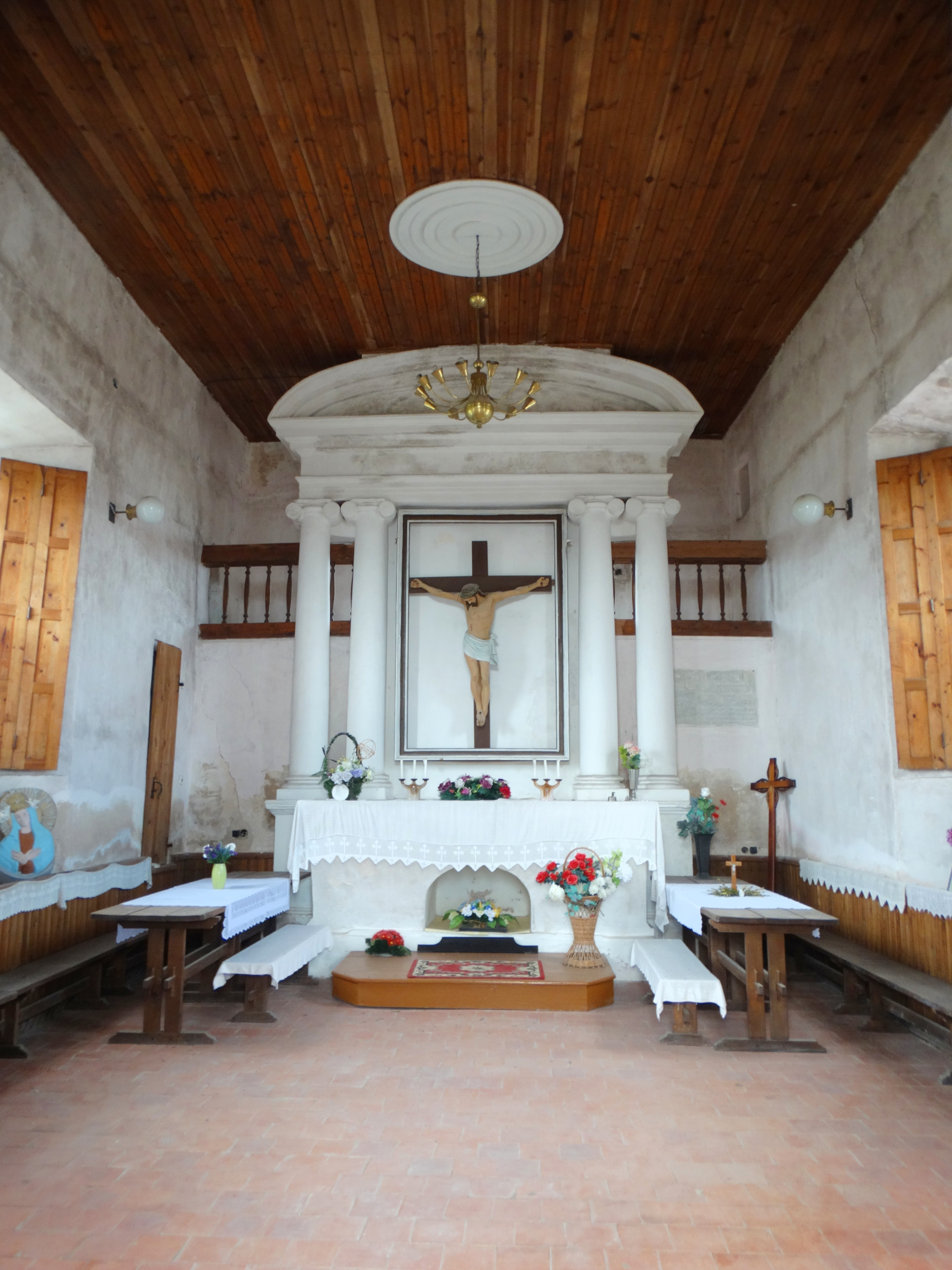 Šėta chapel, Kėdainiai district, Lithuania